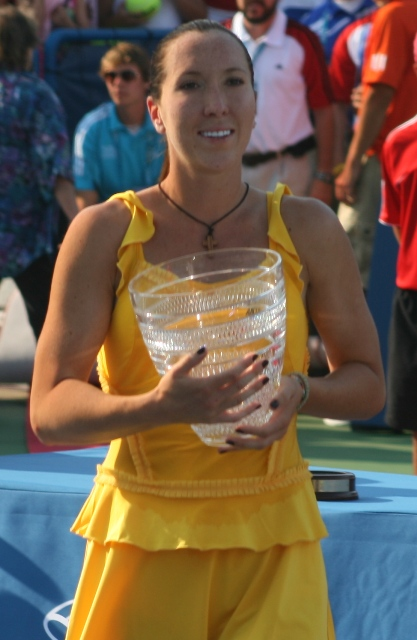 Jelena Jankovic after her win at Cincinnati